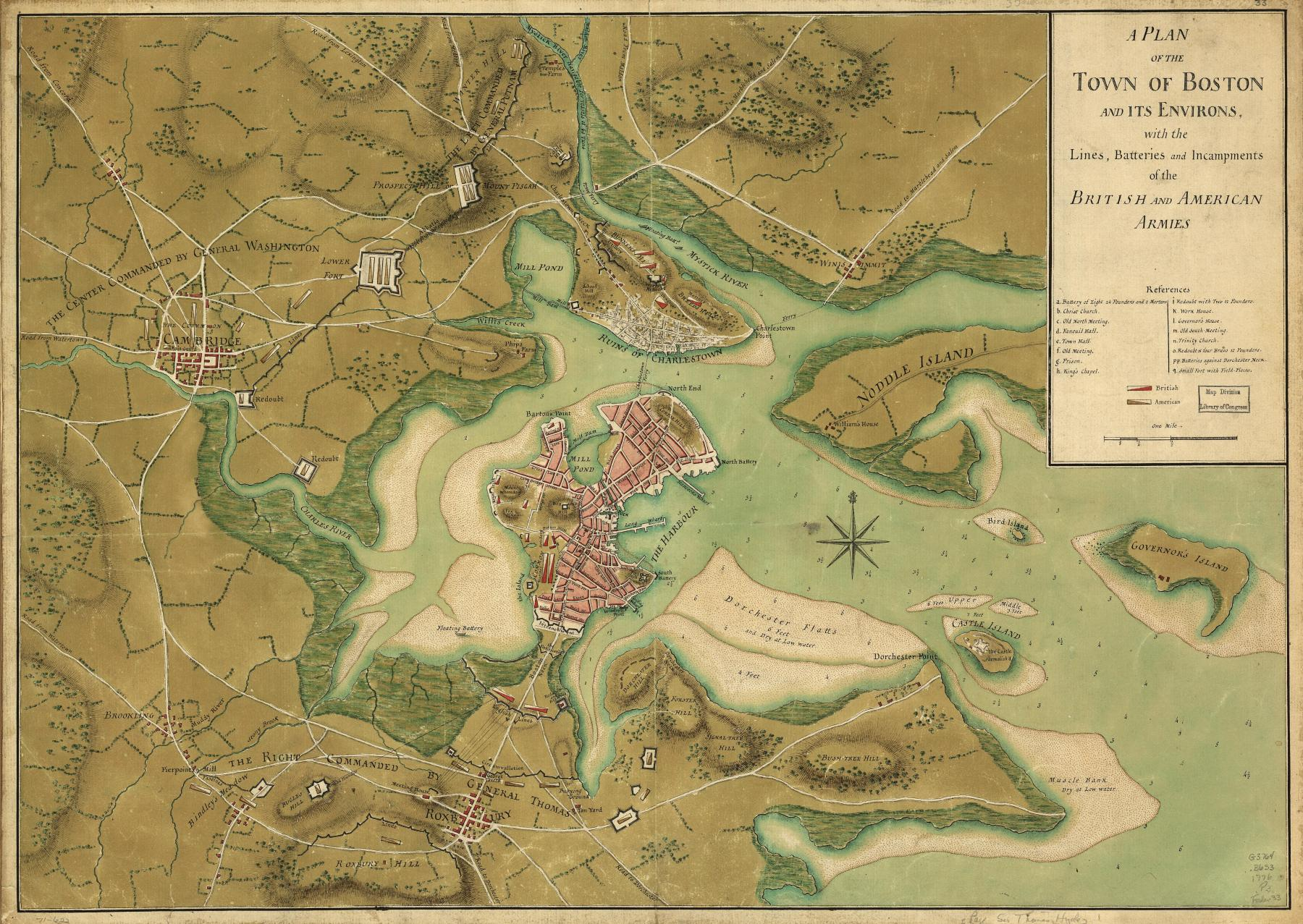 Map of the siege of Boston in 1776.